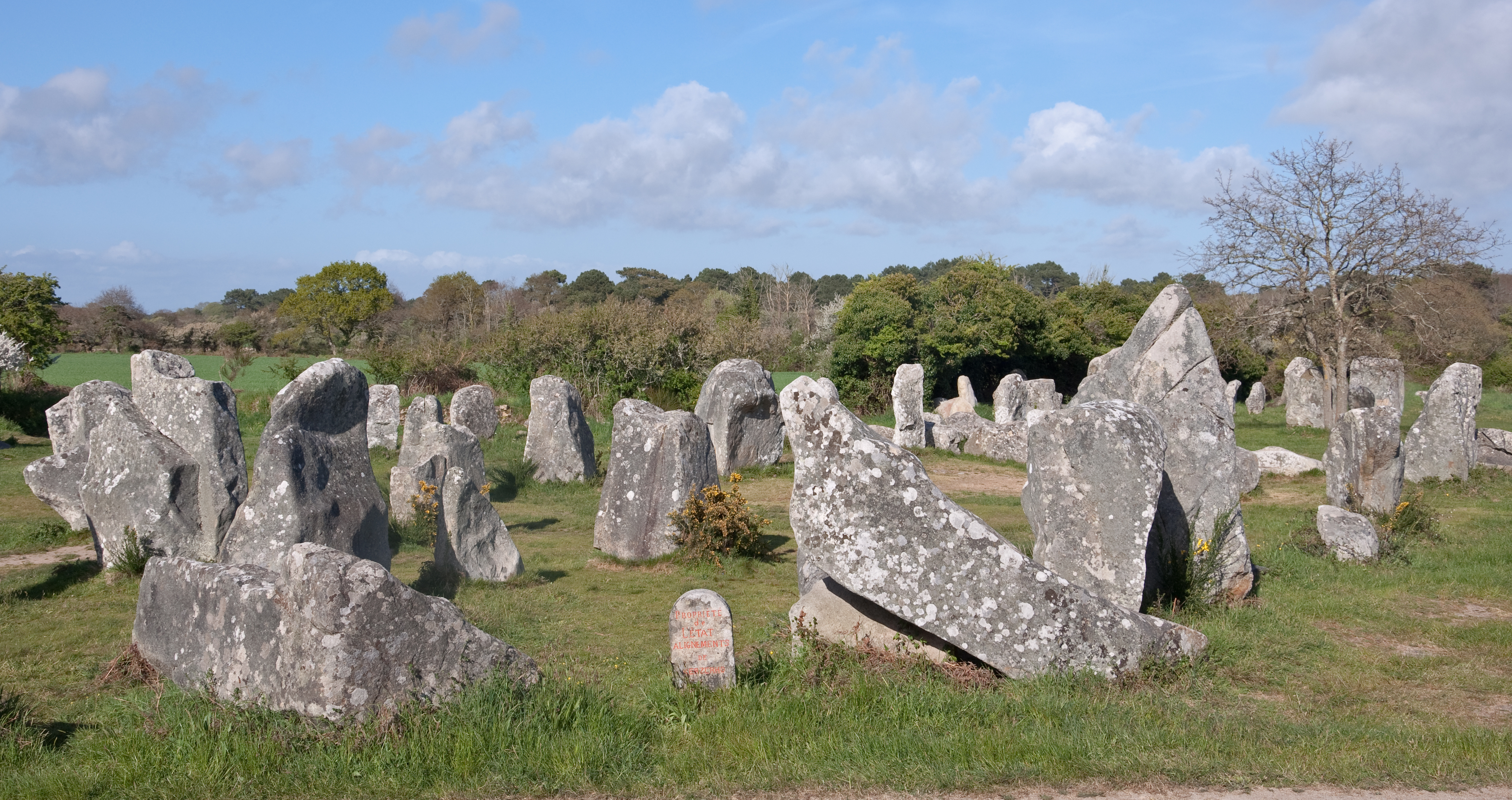 The Kerzerho stone alignment, in Erdeven near Carnac (Morbihan, Brittany, France) .